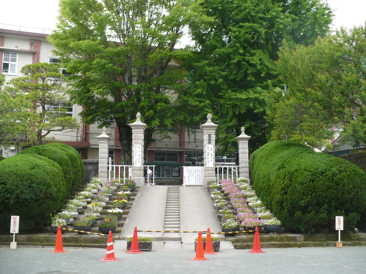 The front gate of Shigetomi junior school, which was installed at Kagosihma prefectural office precedently. Aira town Kagoshima prefecture, Japan